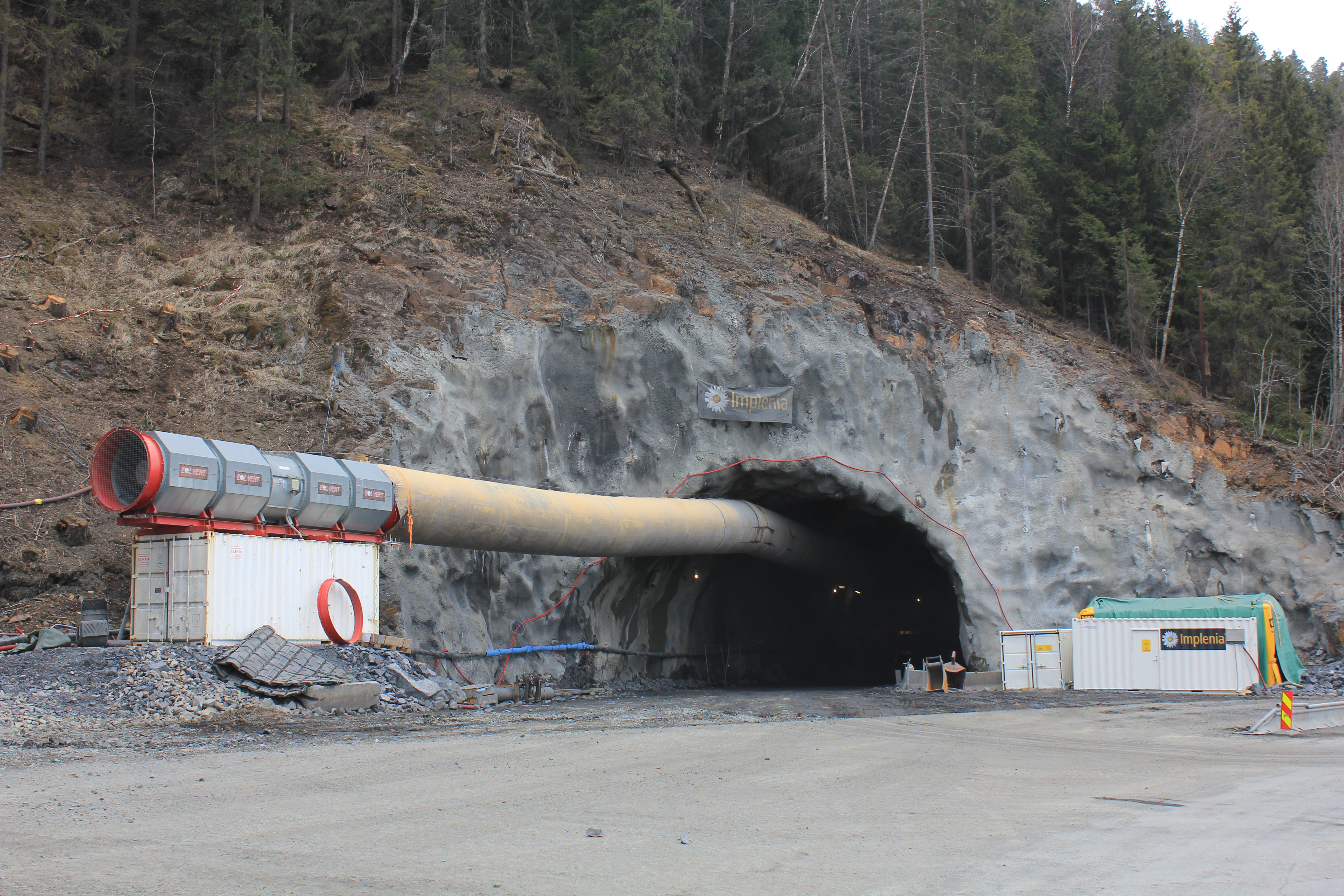 Tunnel drilling at Skreia Mountains, Oppland, Norway.